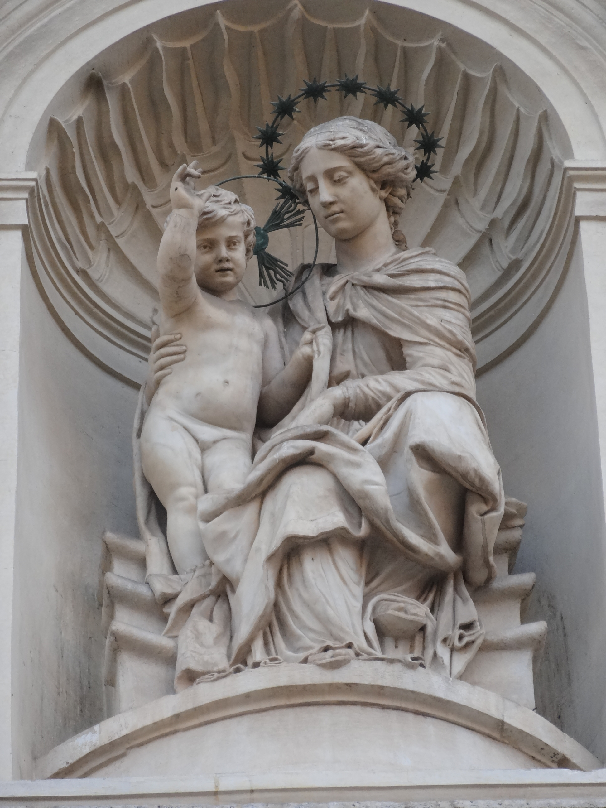 Santa Maria della Scala (Rome)